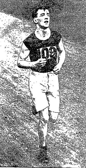 Thomas Morrissey nearing finish at 1908 Boston Marathon